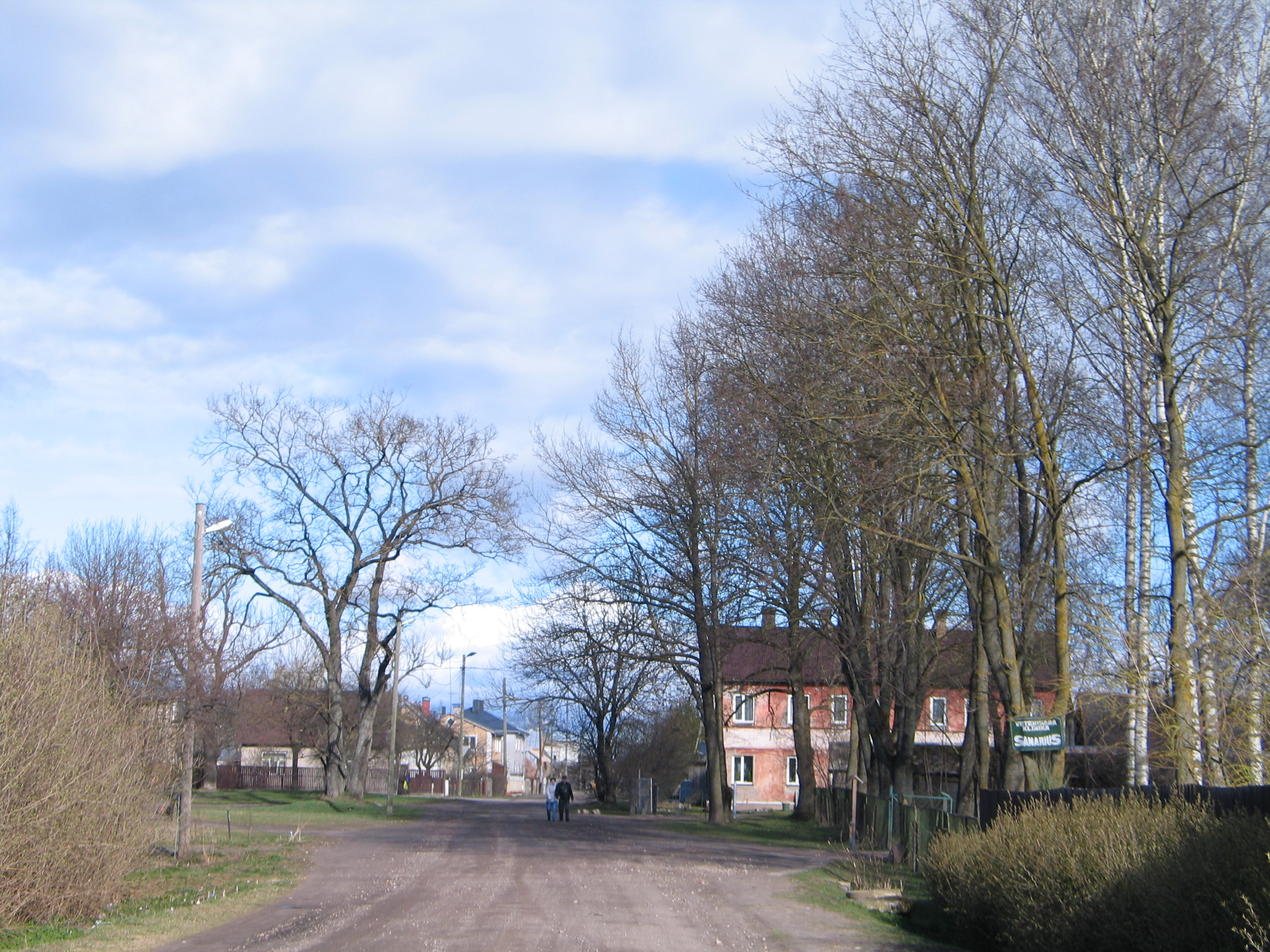 Viestura Street in Jelgava